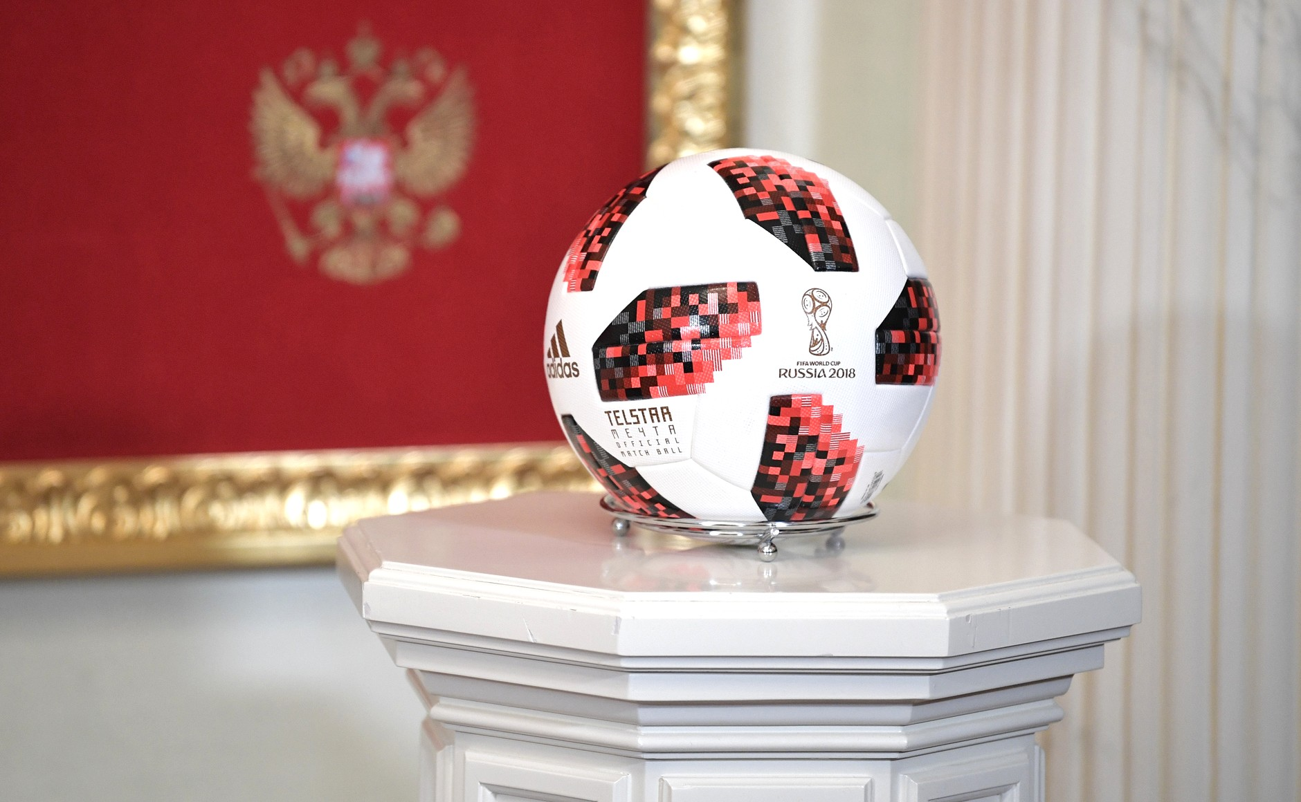 This was an Adidas Telstar Mechta Ball which appeared on the handover ceremony of the 2022 FIFA World Cup host mantle to Qatar on July 15th in Kremlin.It was one of two official balls of the 2018 FIFA World Cup as well.